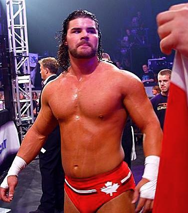 Robert Roode at TNA Impact tapings in Orlando Florida Photo by Rob Beukema